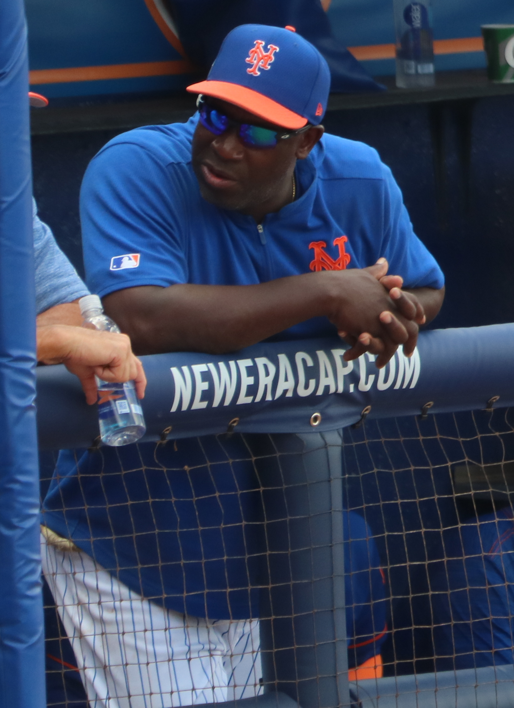 Chili Davis, Devin Mesoraco, Steven Matz and T. J. Rivera, March 2, 2019.